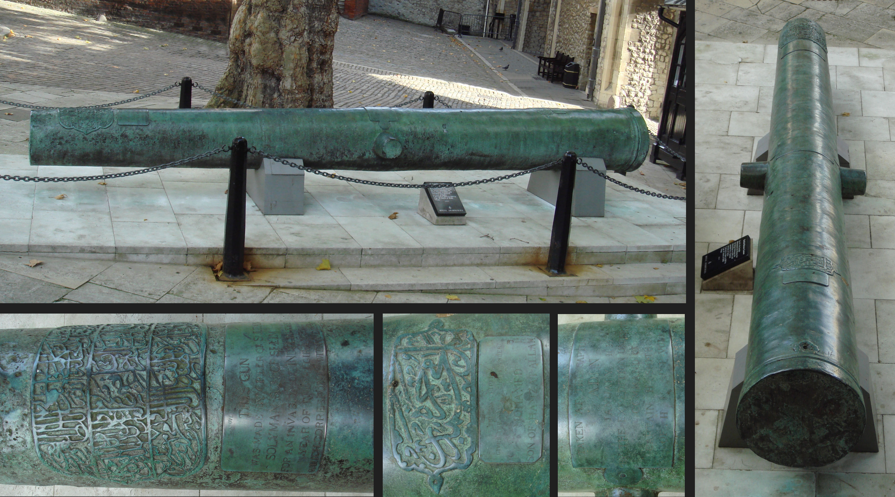 Cannon_of_Suleyman_founded_by_Mohammed_ibn_Hamza_in_1530_1531_for_a_Turkish_invasion_of_India_taken_in_the_capture_of_Aden_in_1839_by_Cap_H_Smith_of_HMS_Volage_with_inscriptions.